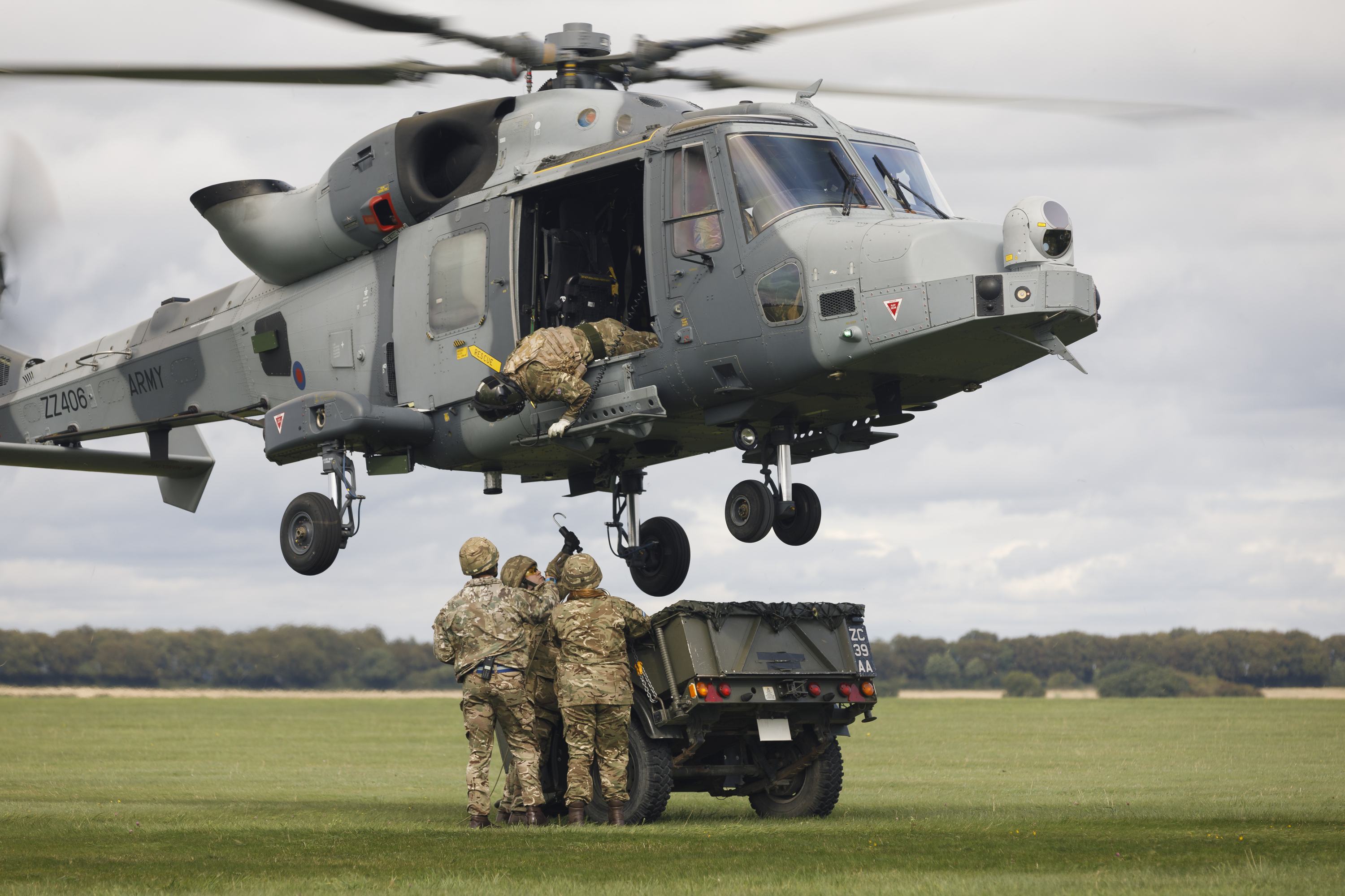 Pictured are soldiers from 6 AAC ready to hook up an Under Slung Load to a Wildcat. The Rear Crewman can be seen leaning out of the aircraft to give commands to the pilot.The static hook visible is used to discharge any build-up of static electricity from the helicopter by earthing it, before the load can be hooked up.6 Regiment, Army Air Corps (6 AAC) conduct Under Slung Load (USL) training with Wildcat Helicopter.Soldiers and Officers from the Sixth Regiment of the Army Air Corps, assisted by a Wildcat helicopter from the Aviation Reconnaissance Force (ARF), based in Yeovilton conducts Under Slung Load (USL) training as part of a Regimental Training Weekend at the Army Aviation Centre, in Middle Wallop.6 Regiment Army Air Corps is the sole Army Reserve regiment of the British Army Air Corps (AAC). The regiment operates in a groundcrew role, providing support to Army Aviation units of the Joint Helicopter Command.